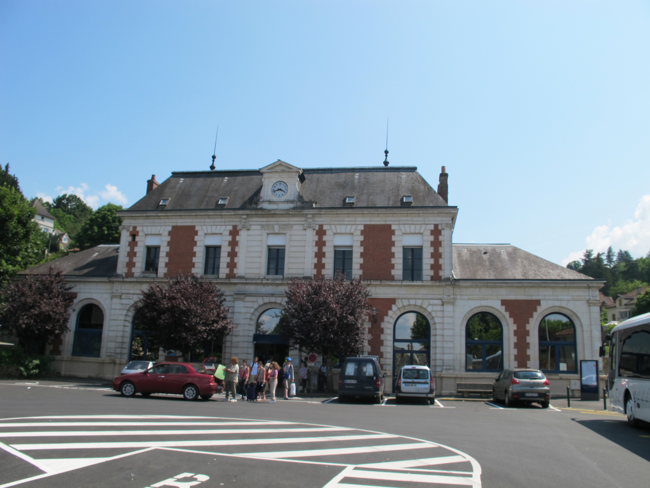 Train station in Figeac